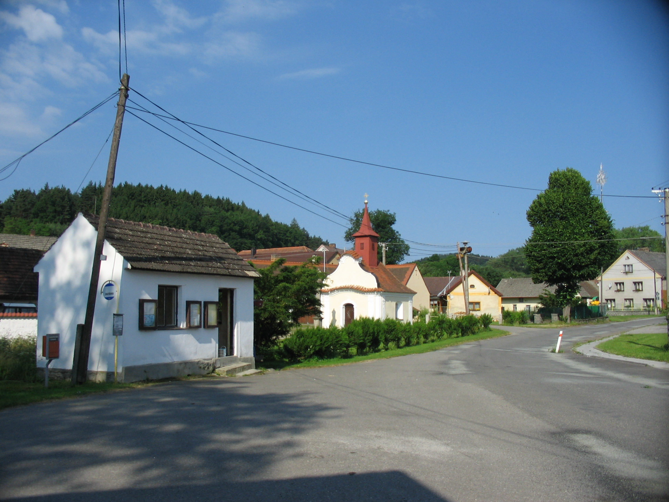 Village square in Kalenice, Strakonice District, Czech Republic